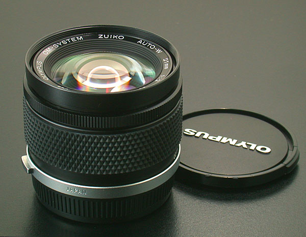 OM Zuiko 21mmF2